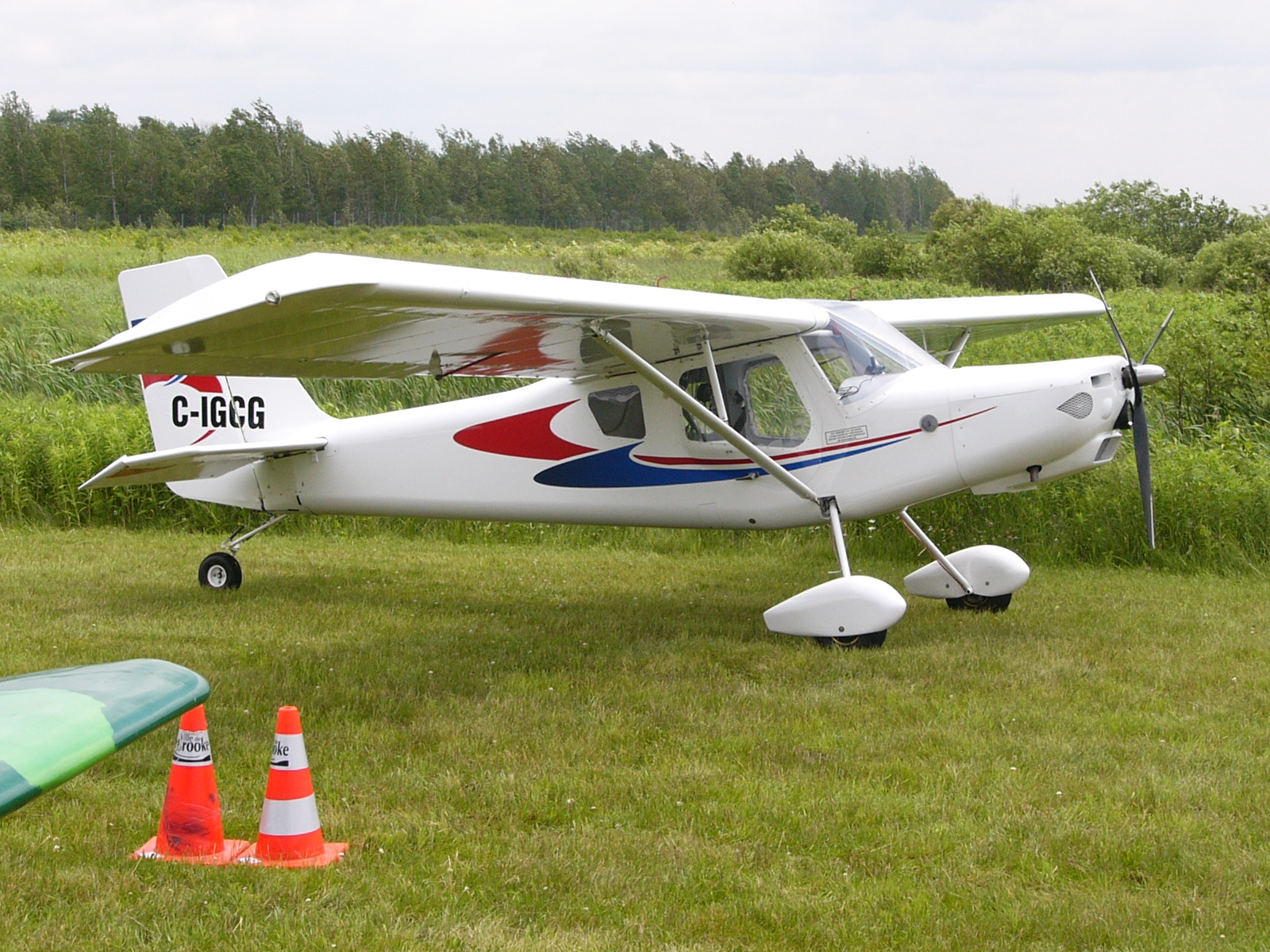 Ultravia Pelican Club Advanced Ultralight at Les Faucheurs de Marguerites Sherbrooke, Quebec, Canada